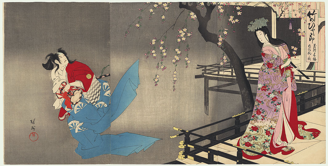 Series: Bamboo Knots. Kabuki: Yoshitsune Sembon Zakura. Scene: Tadanobu leaping from an engawa in front of Shizuka.